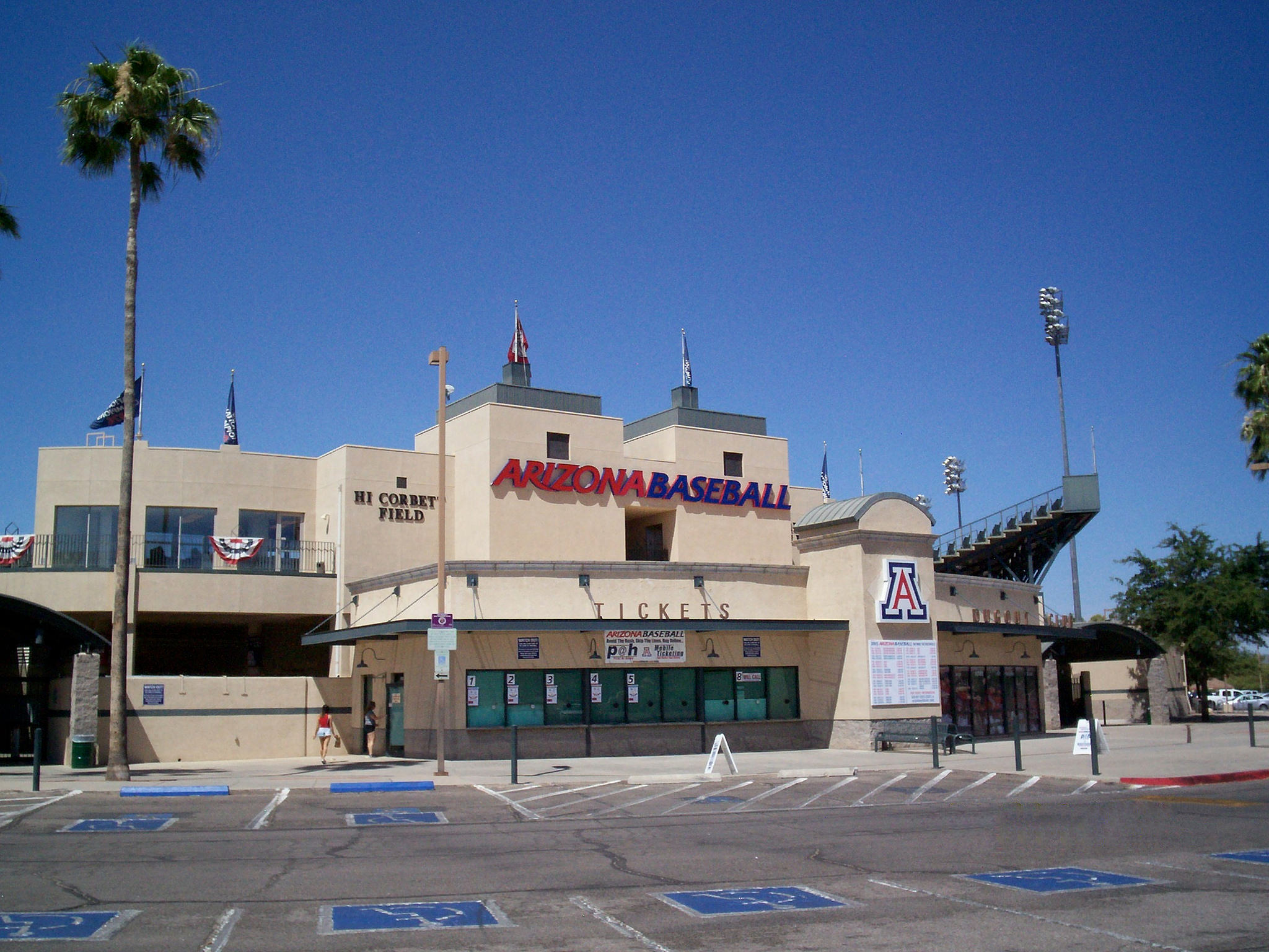 Hi Corbett Field, Tucson, Arizona (home of the University of Arizona Wildcat baseball team), May 2015